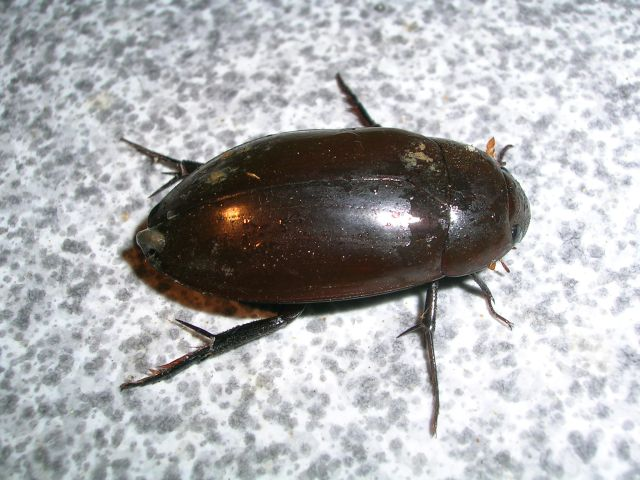 Hydrophilidae water beetle, Nagerhole, India